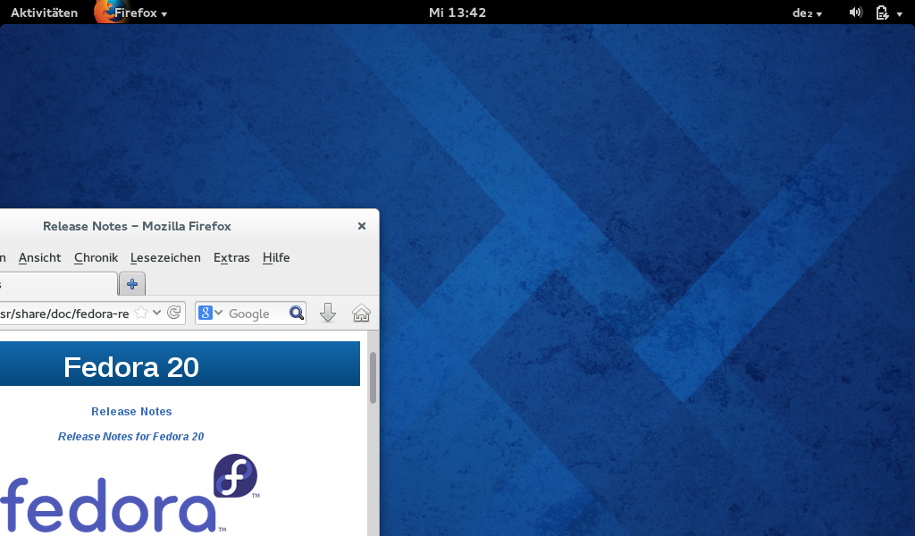 Fedora 20 with GNOME-Shell